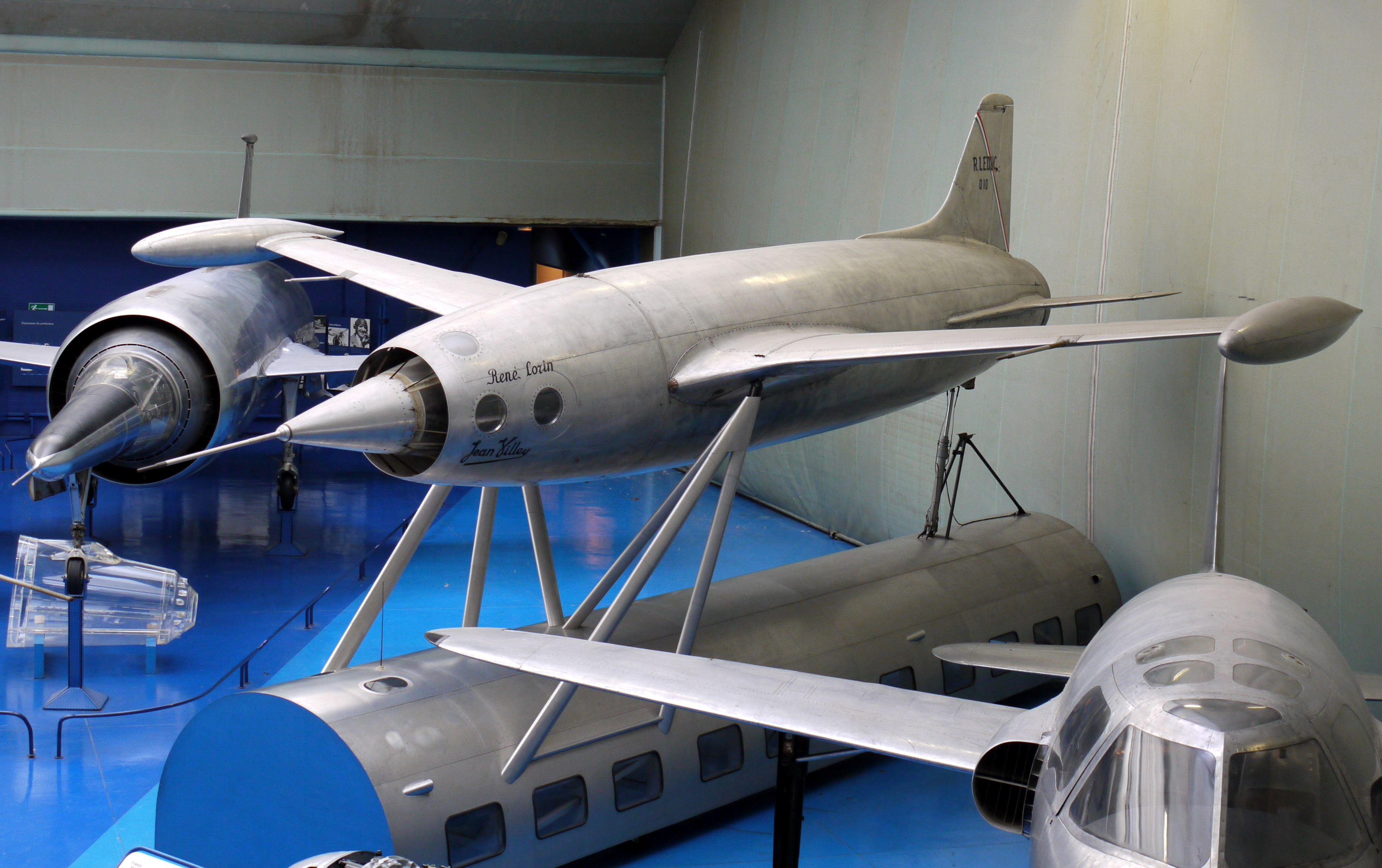 French experimental ramjet aircraft Leduc 016 (1947), Museum of Air and Space Paris, Le Bourget (France)